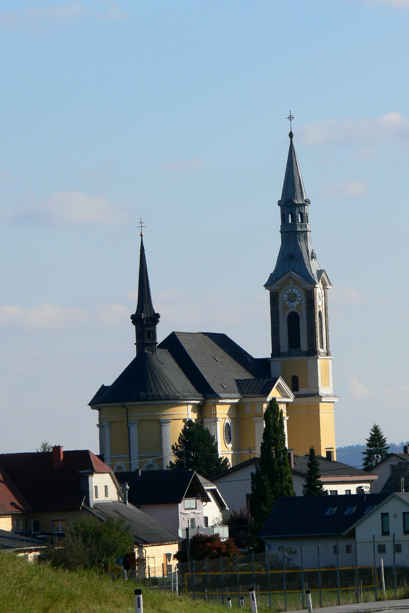 Niederkappel ( Upper Austria ). Saint Andrew parish church ( 1895 ).